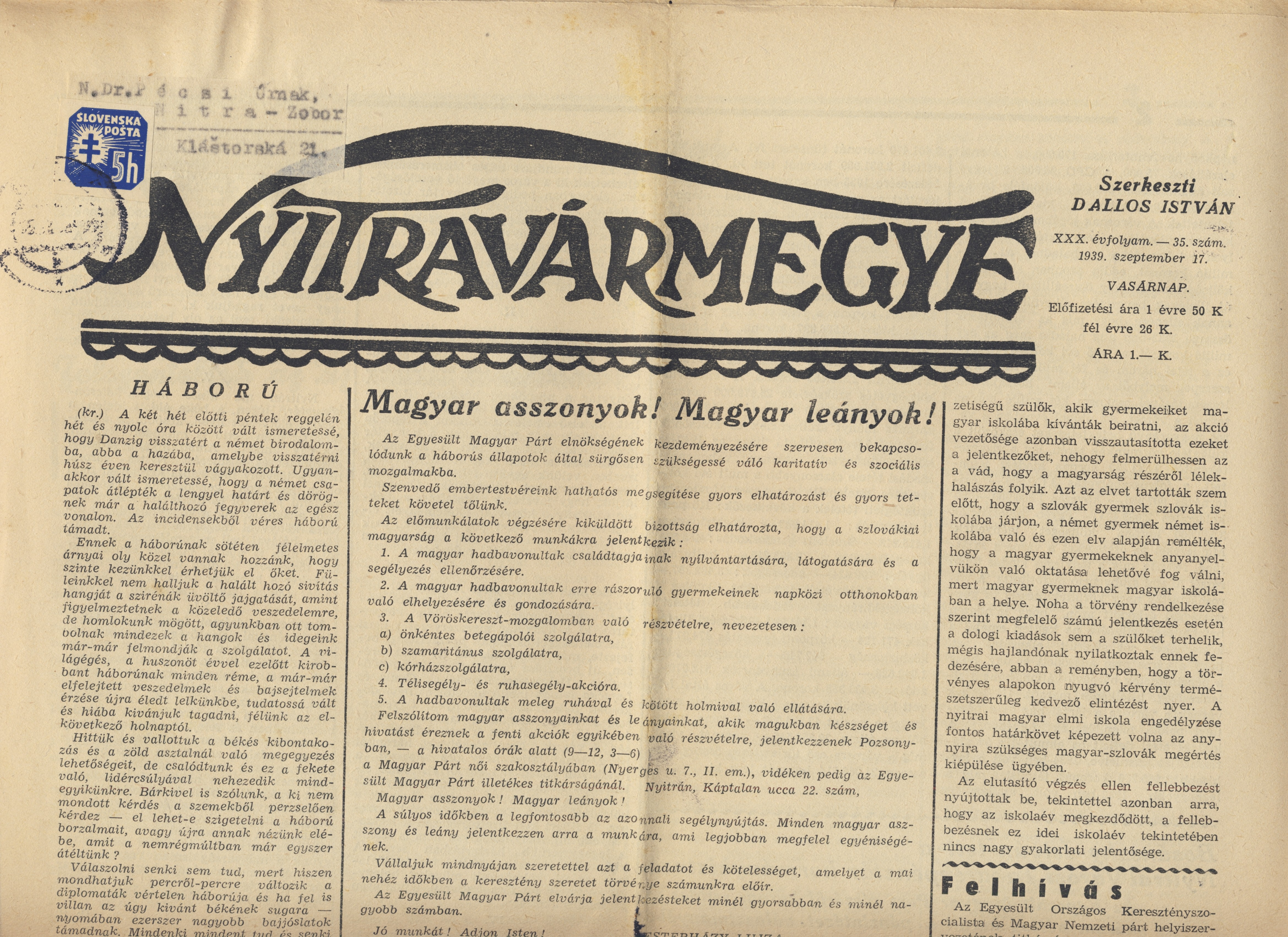 Nyitravármegye